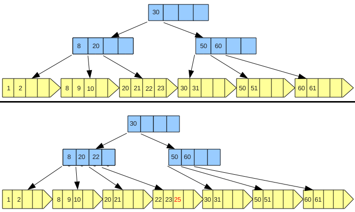 B+ tree insertion